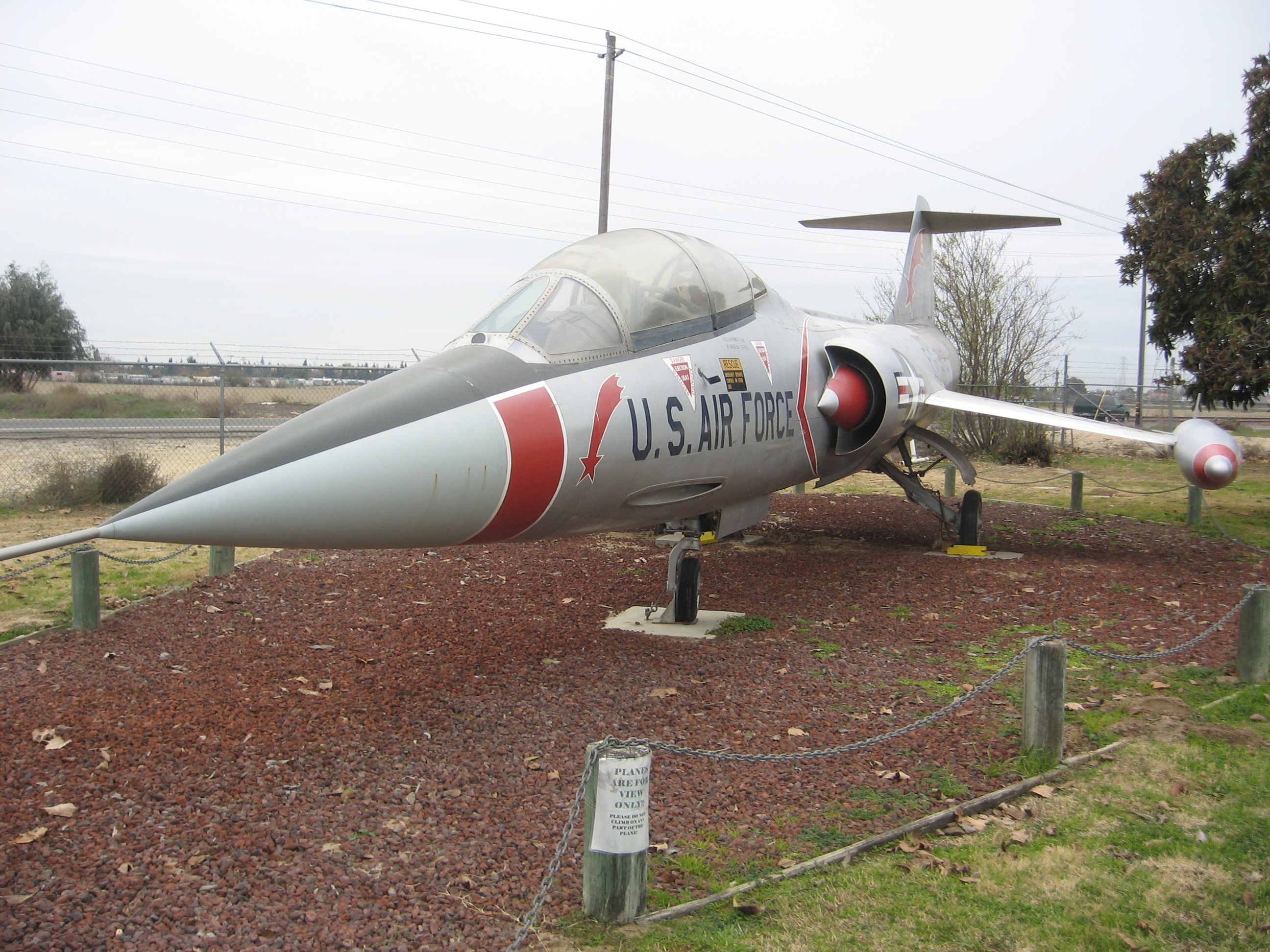 A Lockheed F-104B Starfighter on display at the Castle Air Museum in Atwater, California.